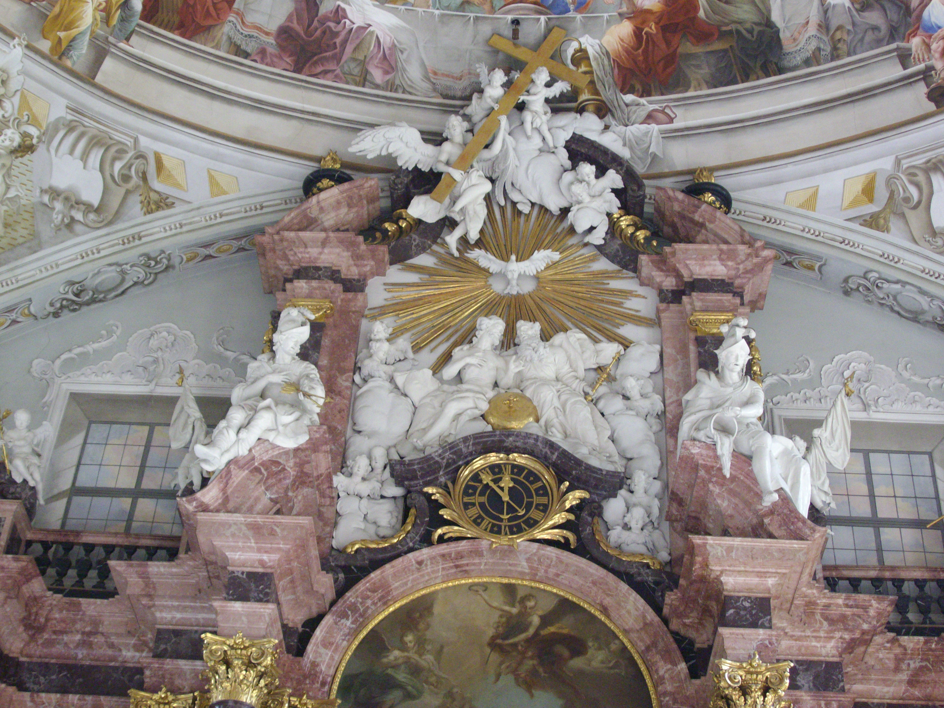 Austria, Tyrol, Neustift im Stubaital, Hl. Georg. Stuccoes on the altar-piece.